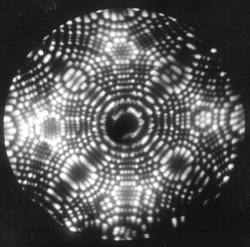 Field ion microscope image of Platinum. Each tiny bright spot corresponds to a platinum atom. Image was taken from the sample cooled to liquid He temperature with imaging gas of He-Ne mixture.